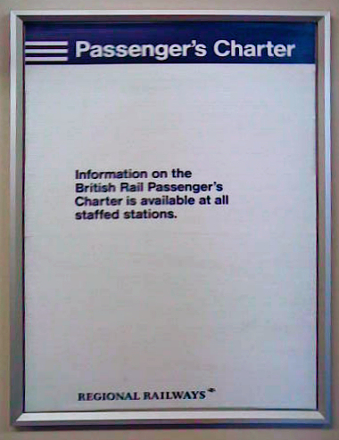 A British Rail sign photographed recently in a Northern Rail train, York.